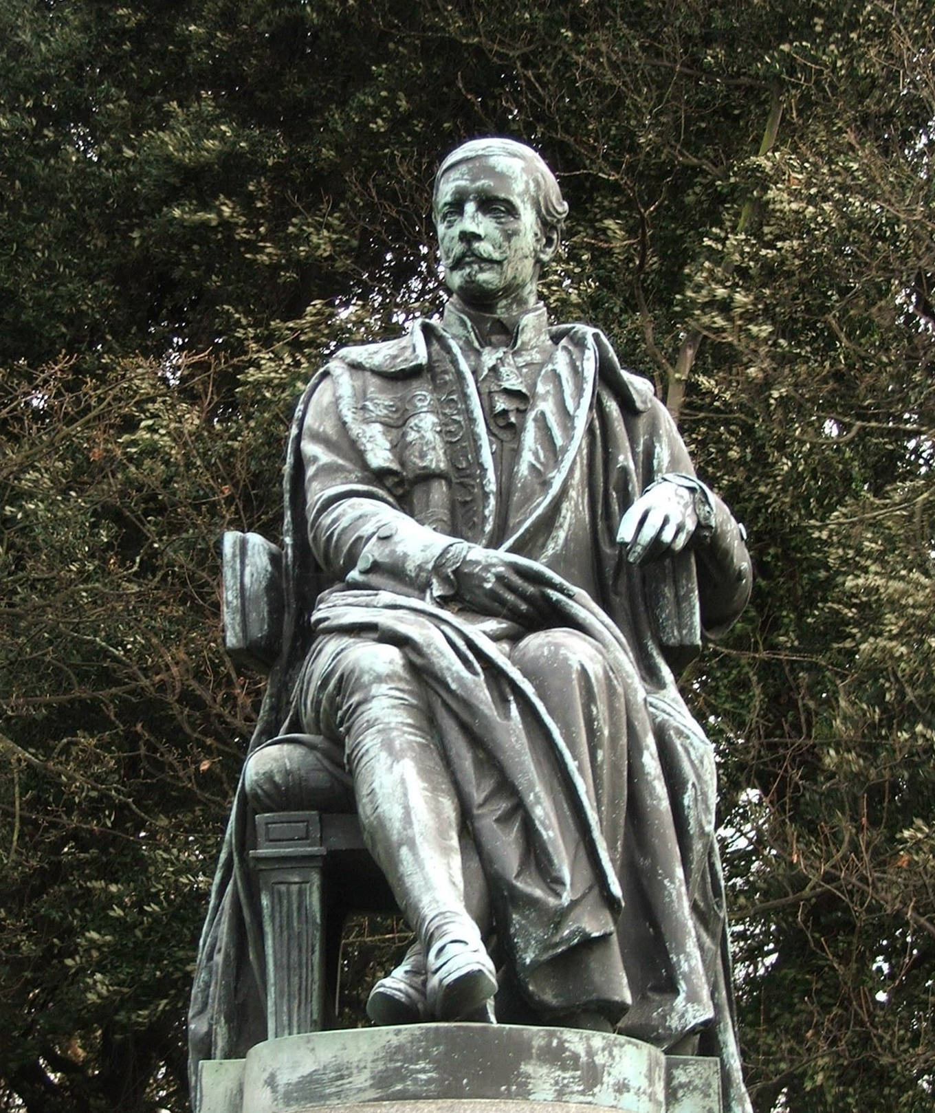 This is a close up of the statue of Lord Ardilaun (Sir Arthur E. Guinness). It is facing the Royal College of Surgeons in Ireland on St. Stephens Green, Dublin, Ireland. Sculpted by Sir Thomas Farrell in 1891.